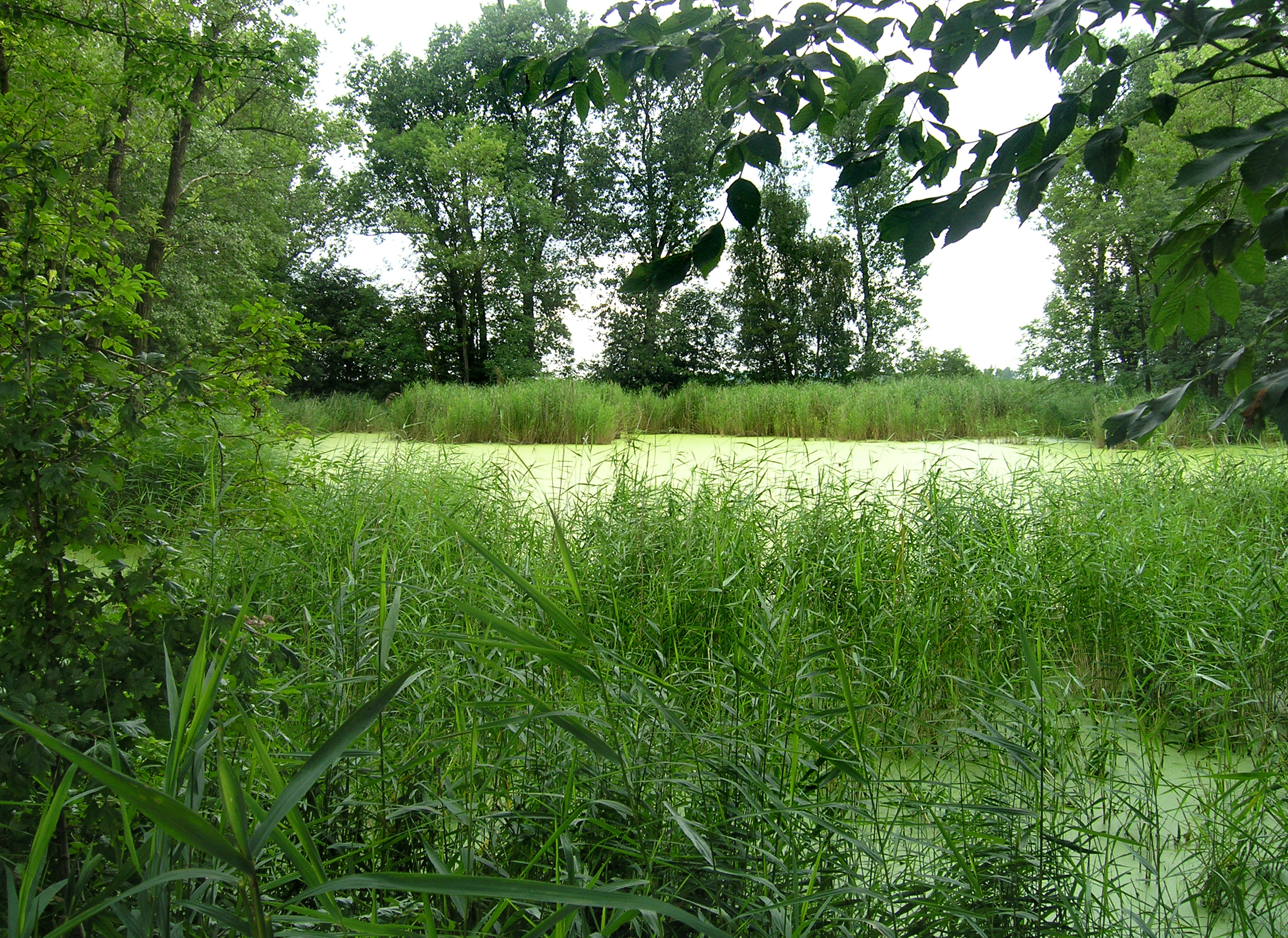 Váha natural reserve by Volárna village, Czech Republic